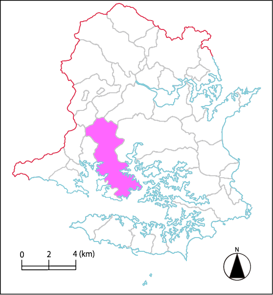 This is the map of Hamajimacho-Hazako, Shima, Mie, Japan.